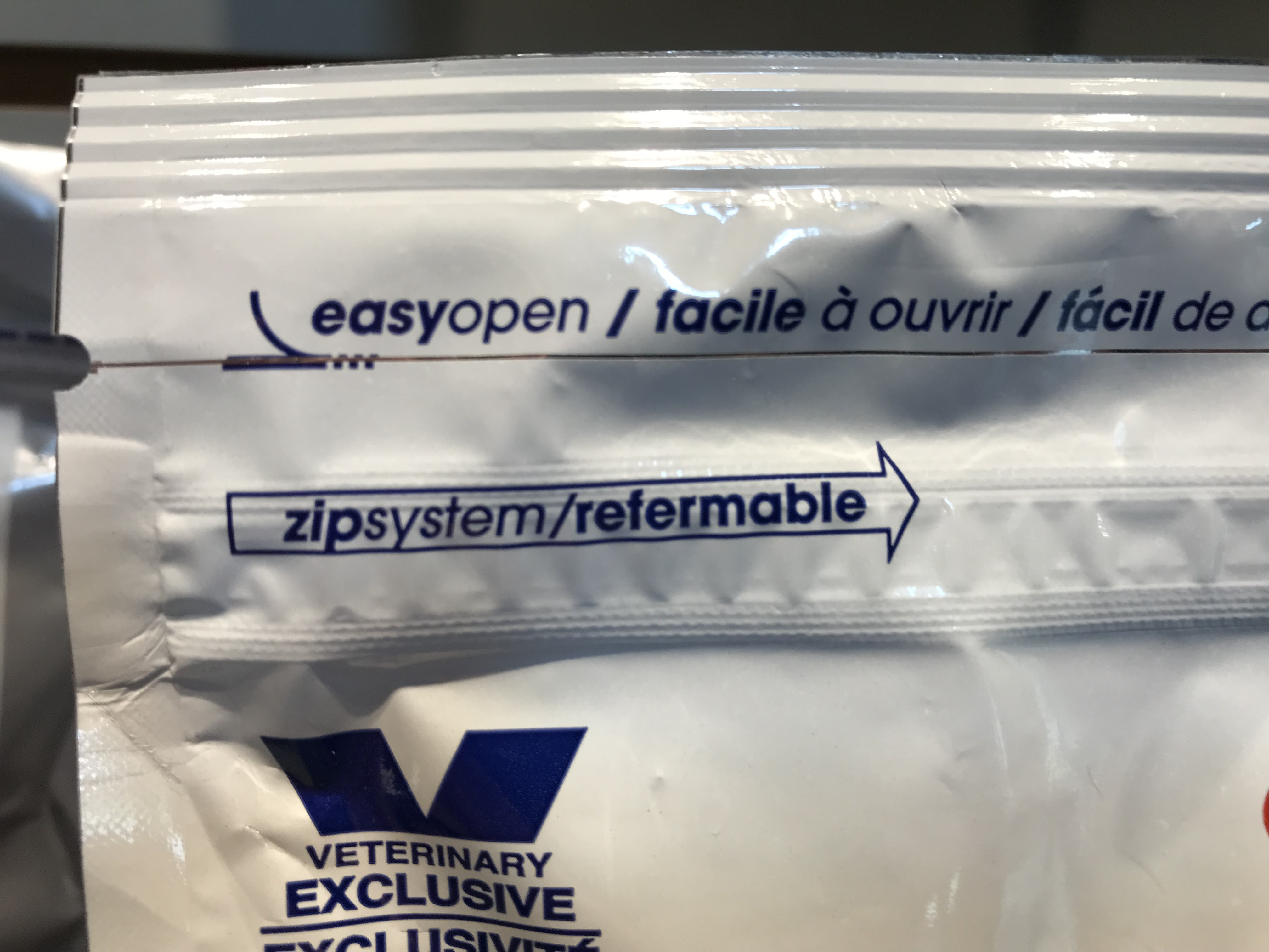 Stand-up pouch with an easy-open tear feature. Also a reclosable strip.